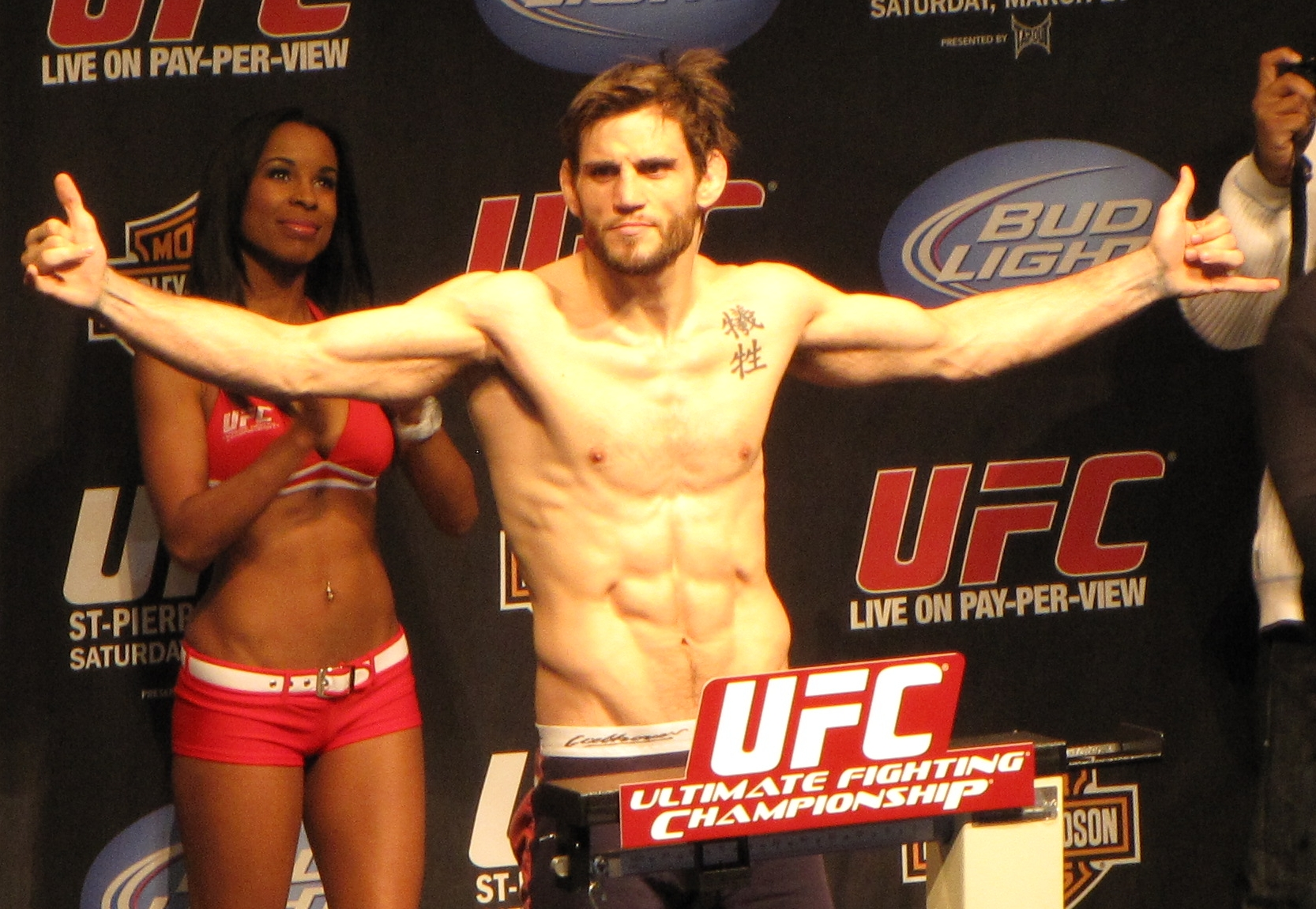 Jon Fitch at the UFC 111 weigh-ins.